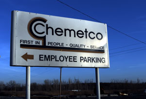 Author: Alistair SiddonsAstral highway 11:56, 10 November 2006 (UTC)